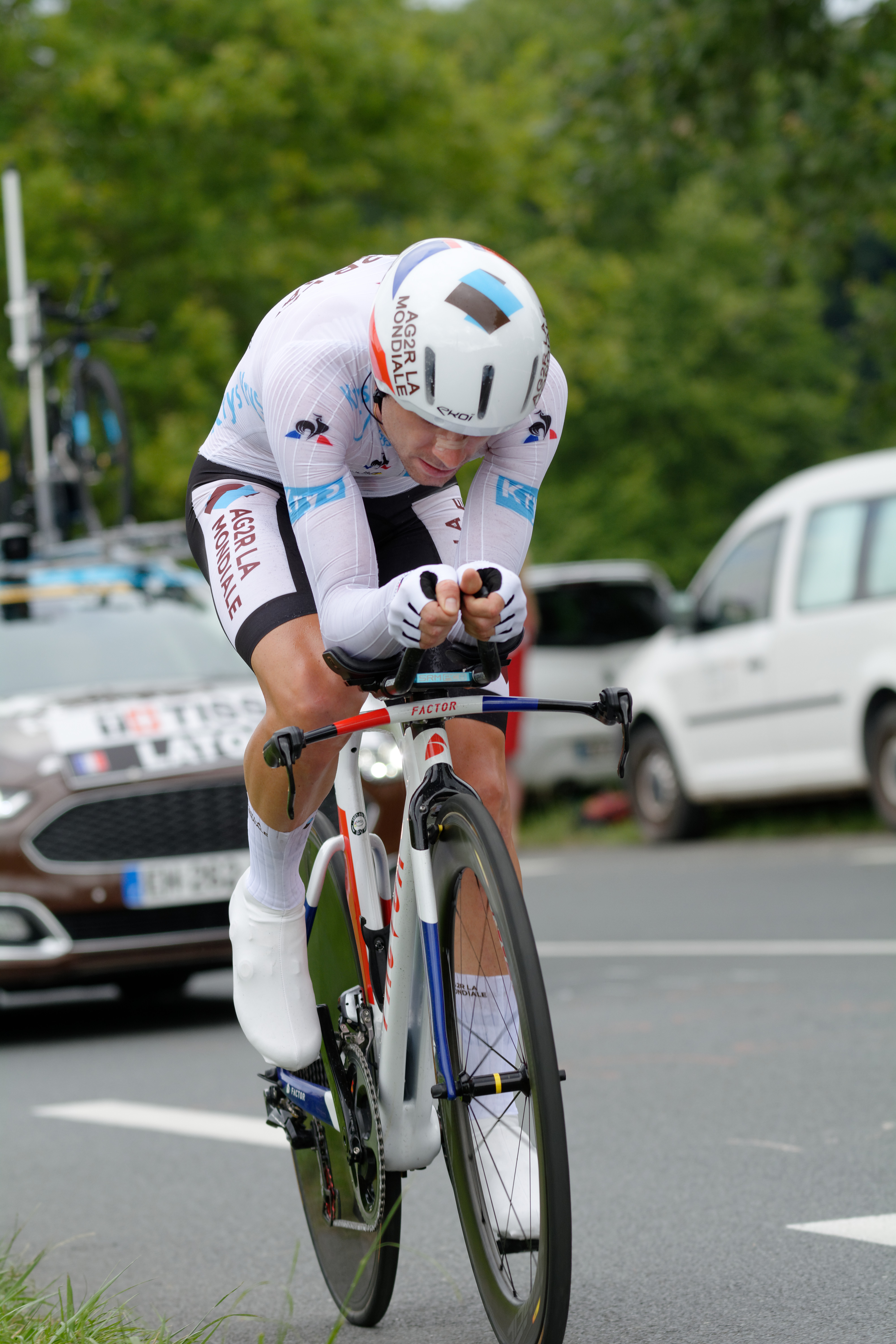 2018 Tour de France